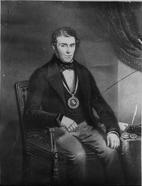 1 negative : glass, wet collodion, b&w ; 12.5 x 10 cm.